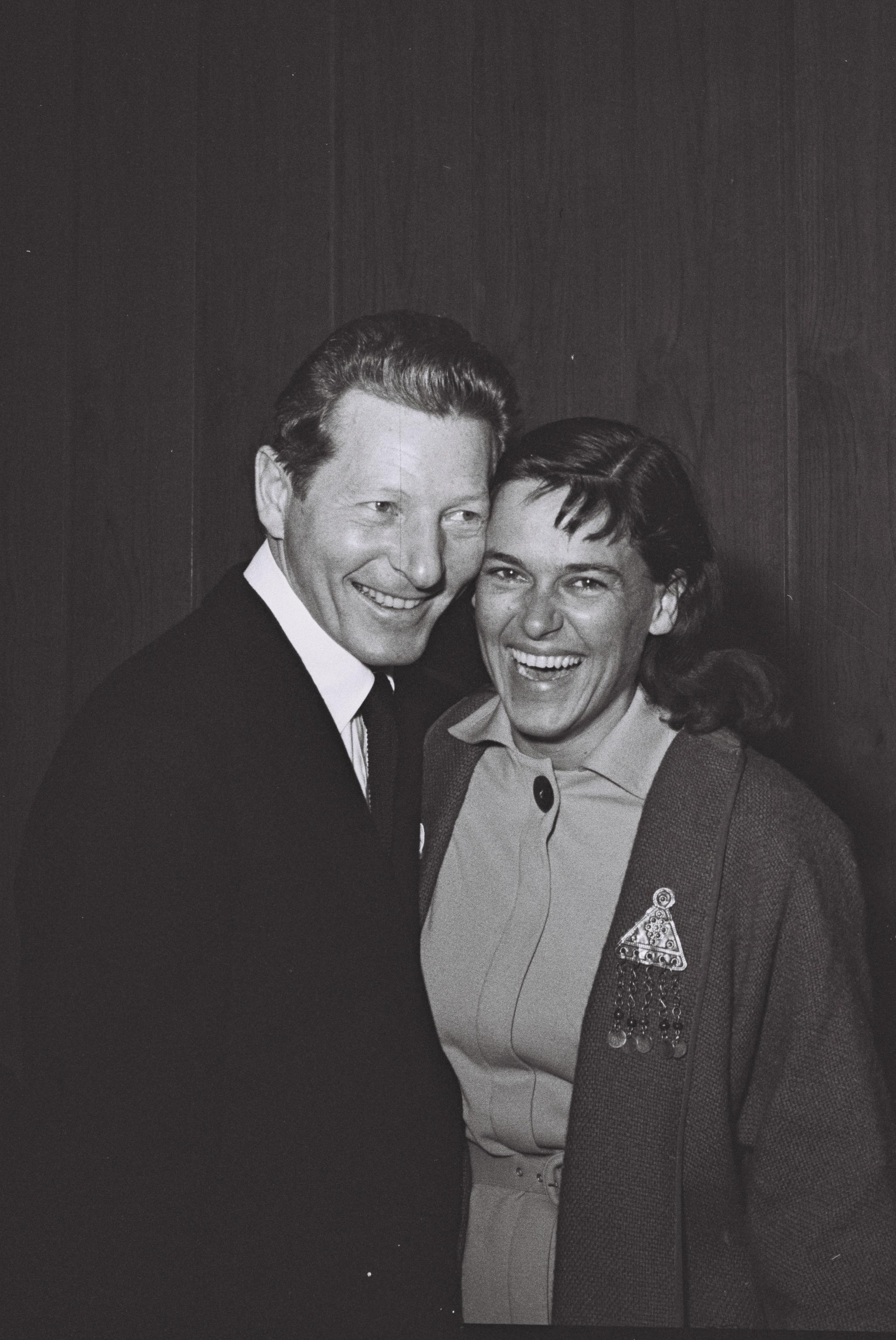 Film star Danny Kaye with chamber theatre actress Orna Porat.